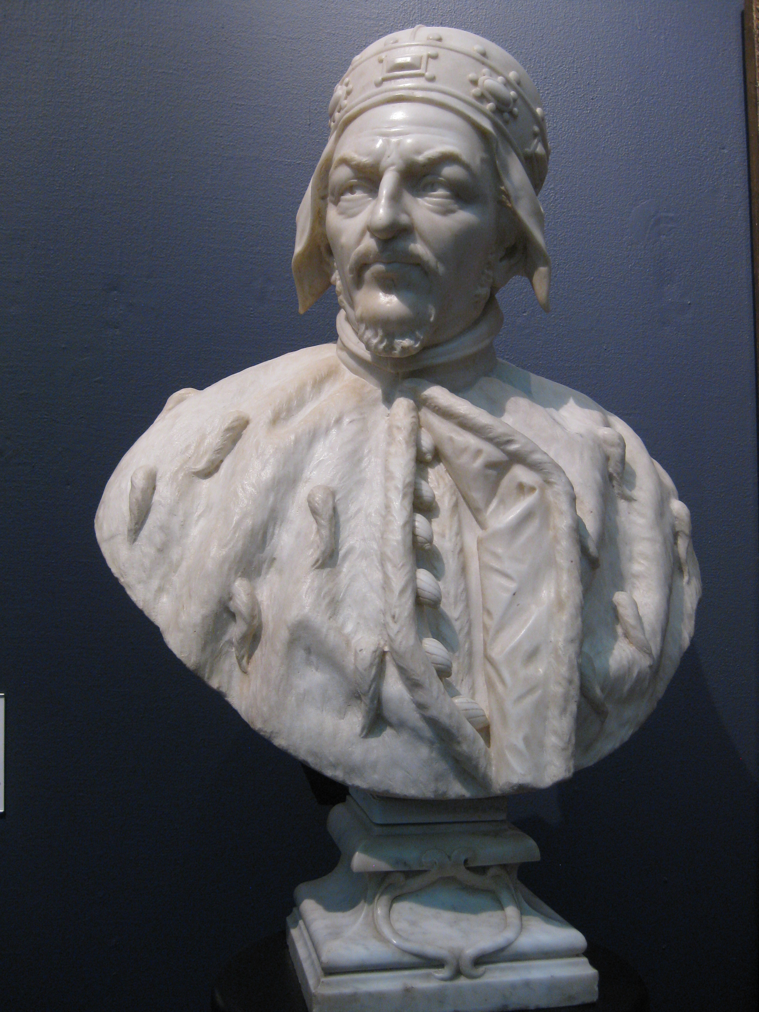 Marble bust of Francesco Molin (1575-1655), Doge of Venice by Justus de Corte (1627-1679) on display at the Birmingham Museum and Art Gallery. About 1655.